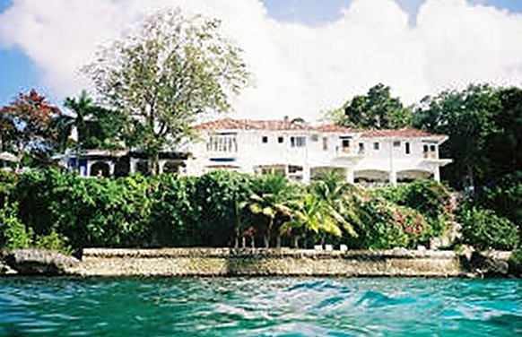 This photo was taken by myself from a boat in 2009 near Ochos Rios, Jamaica.